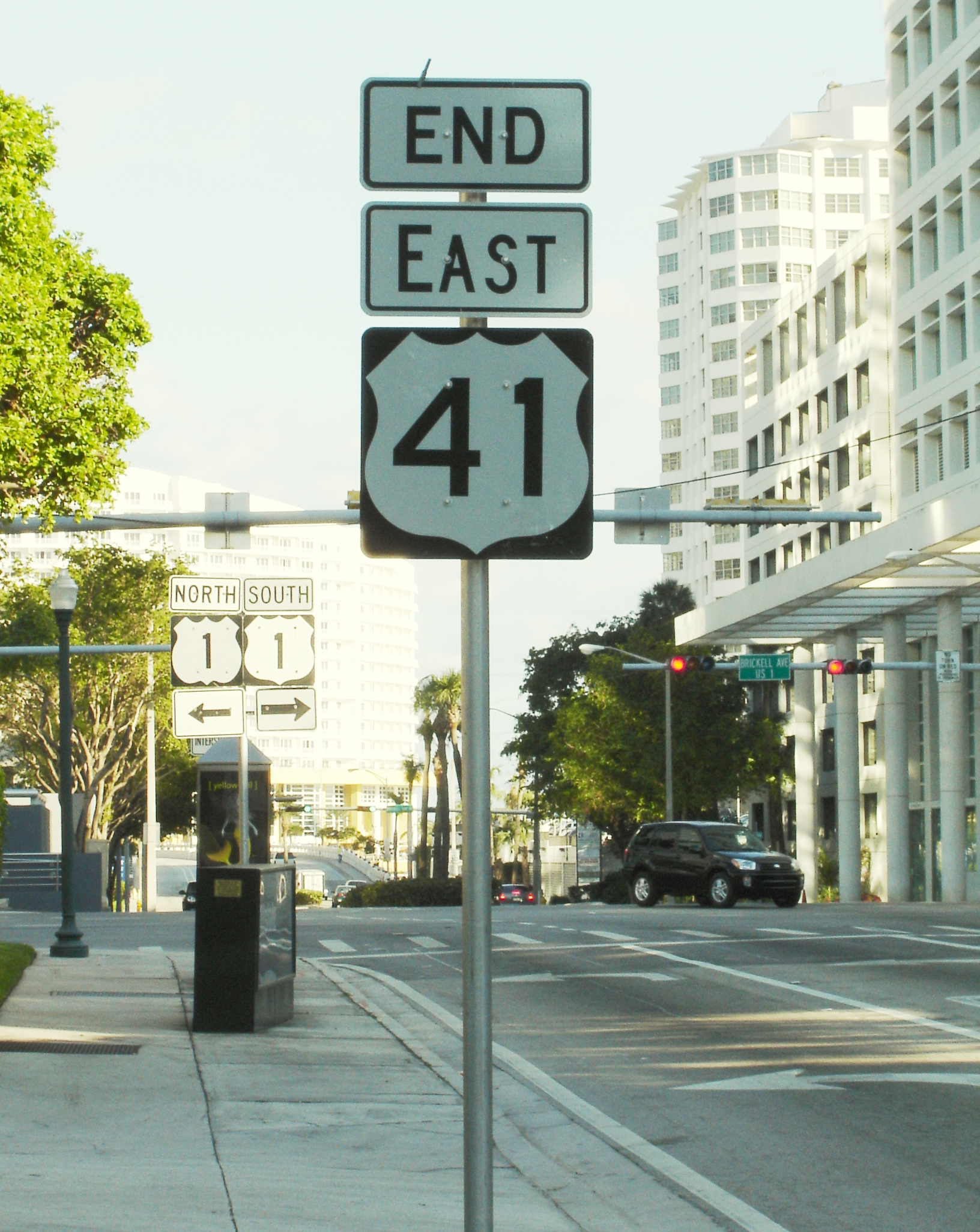 The southern terminus of U.S. Route 41 in Miami, on January 8, 2006. Cropped and color-corrected with the GIMP.